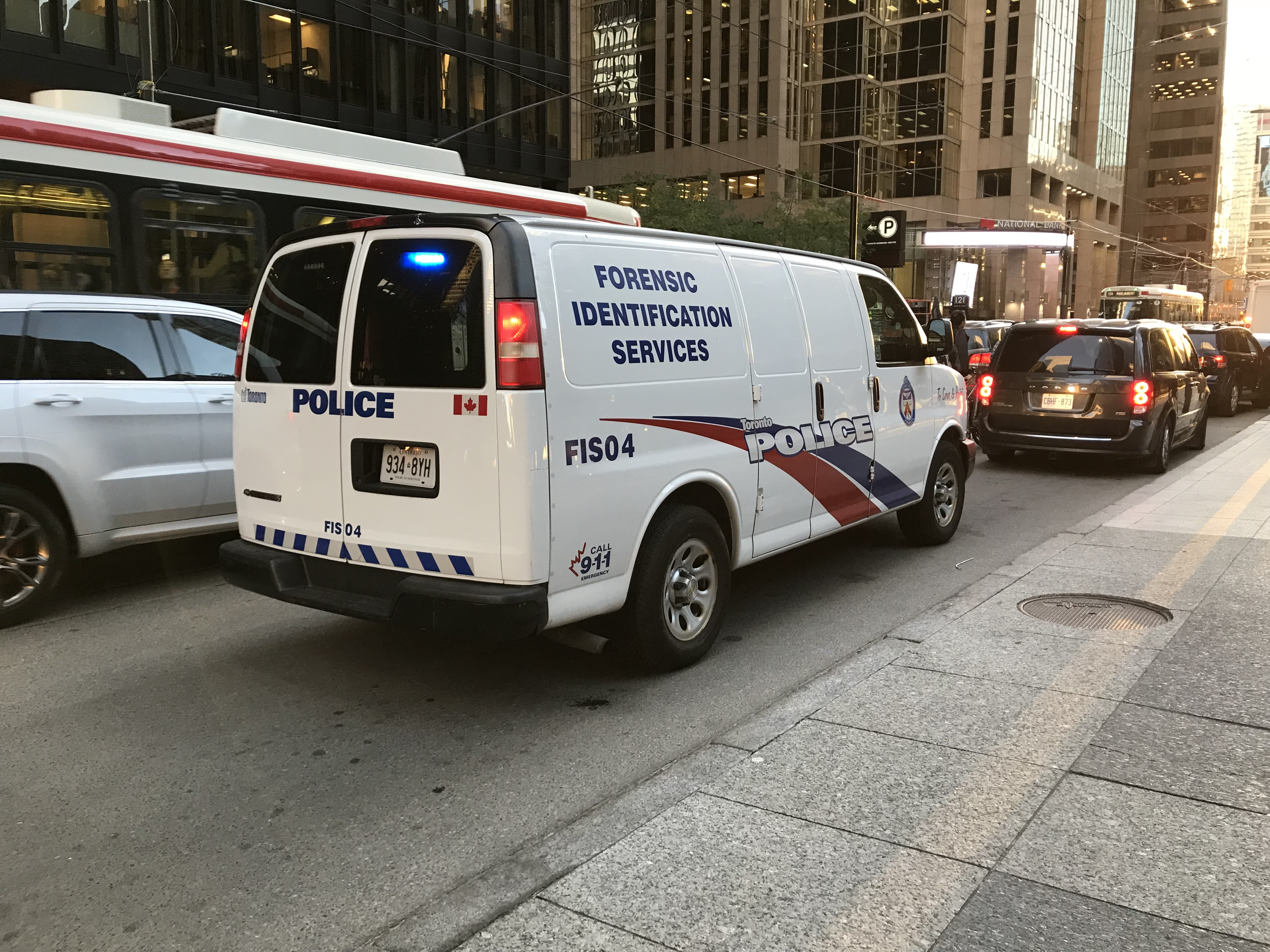 Toronto Police Services Forensic Identification Services van on King Street, FIS04, Ontario license plate 934 8YH.